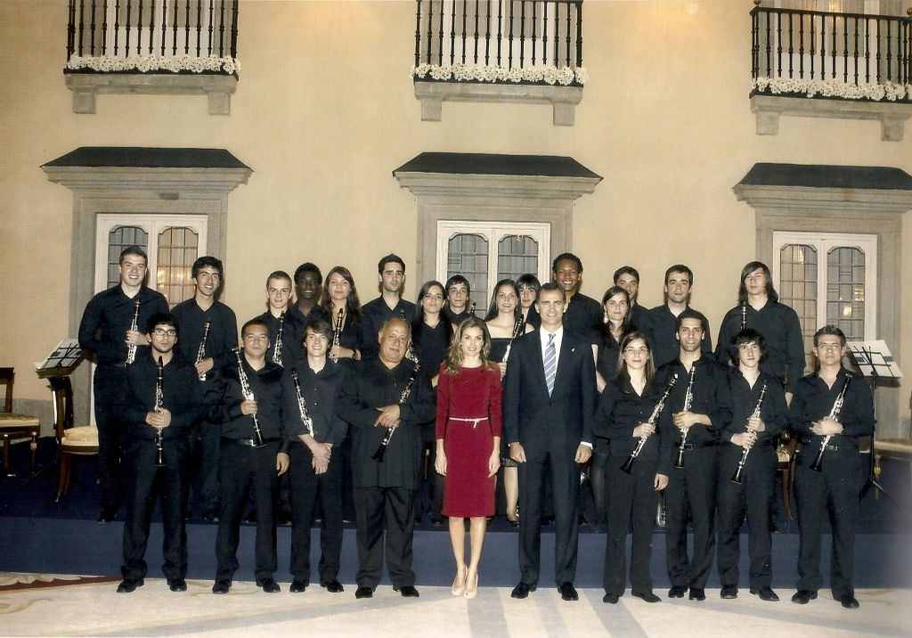 António Saiote with the prince and princess of Asturias.